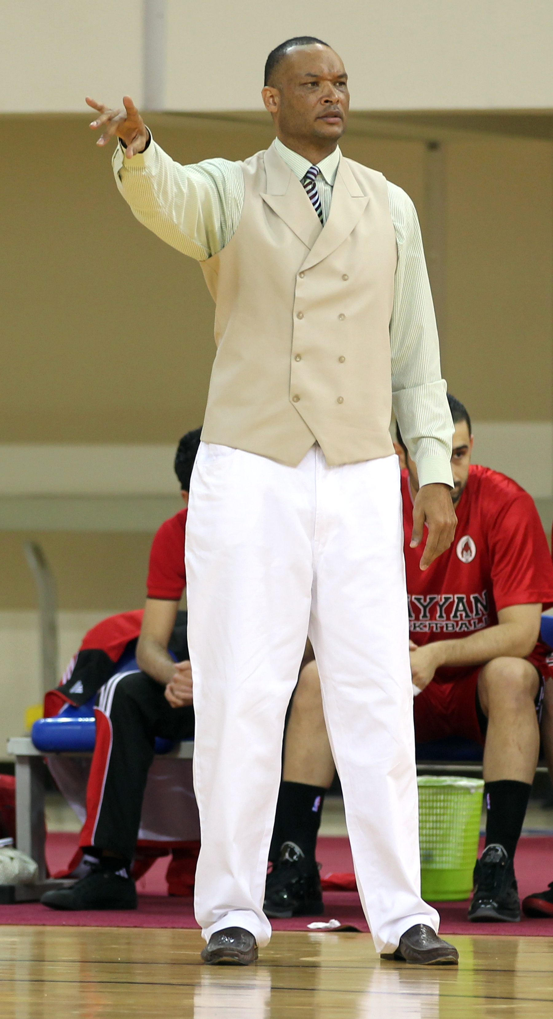 Al Rayyan's American coach Brian Rowsom instructs his players during their Qatar League match against Al Sadd. Picture by Mohan